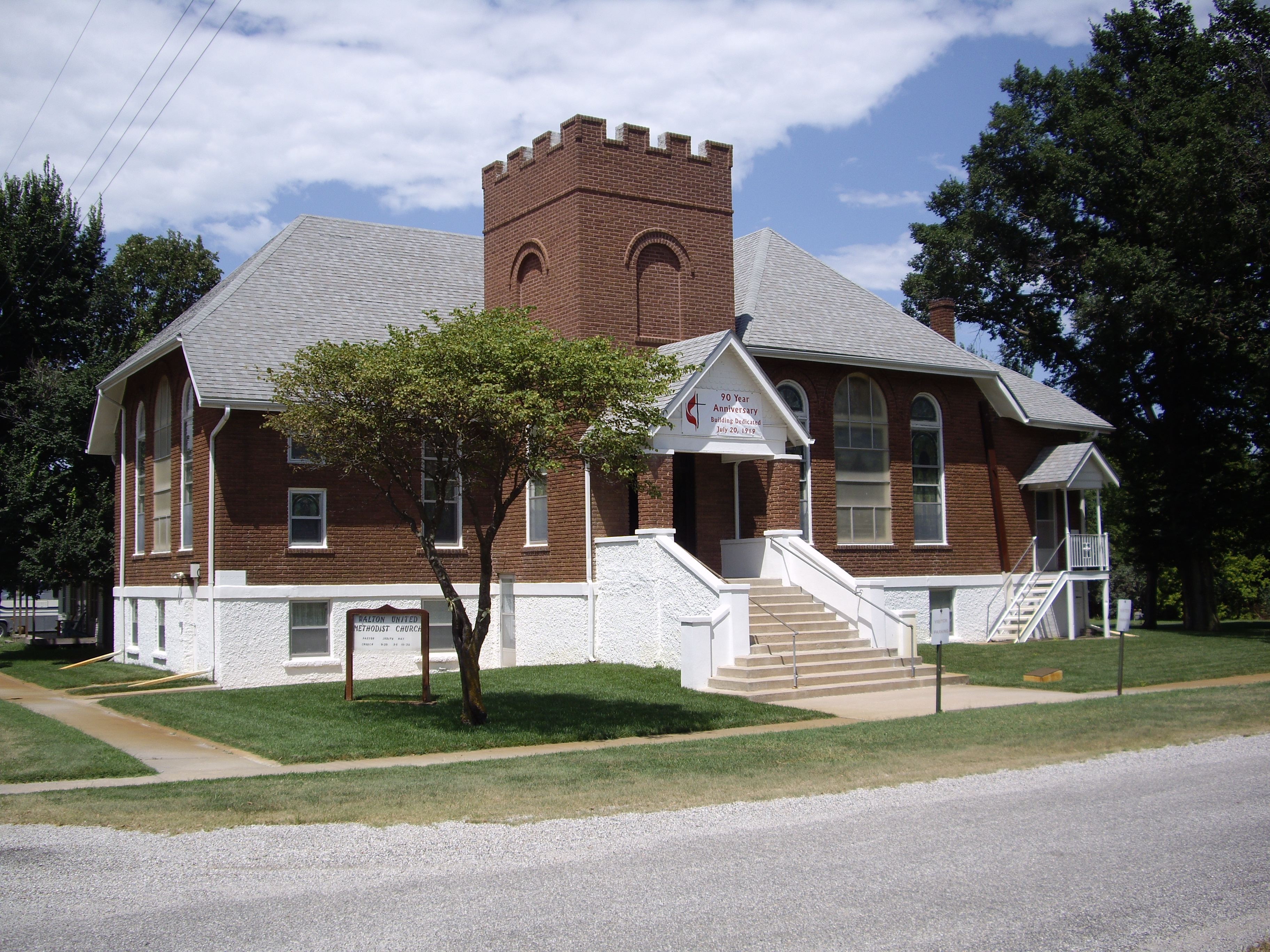 Walton United Methodist Church, 203 N 2nd Ave, Walton, Kansas, 67151, USA. Looking northwest. Photo by Steve Meirowsky on August 4, 2010.